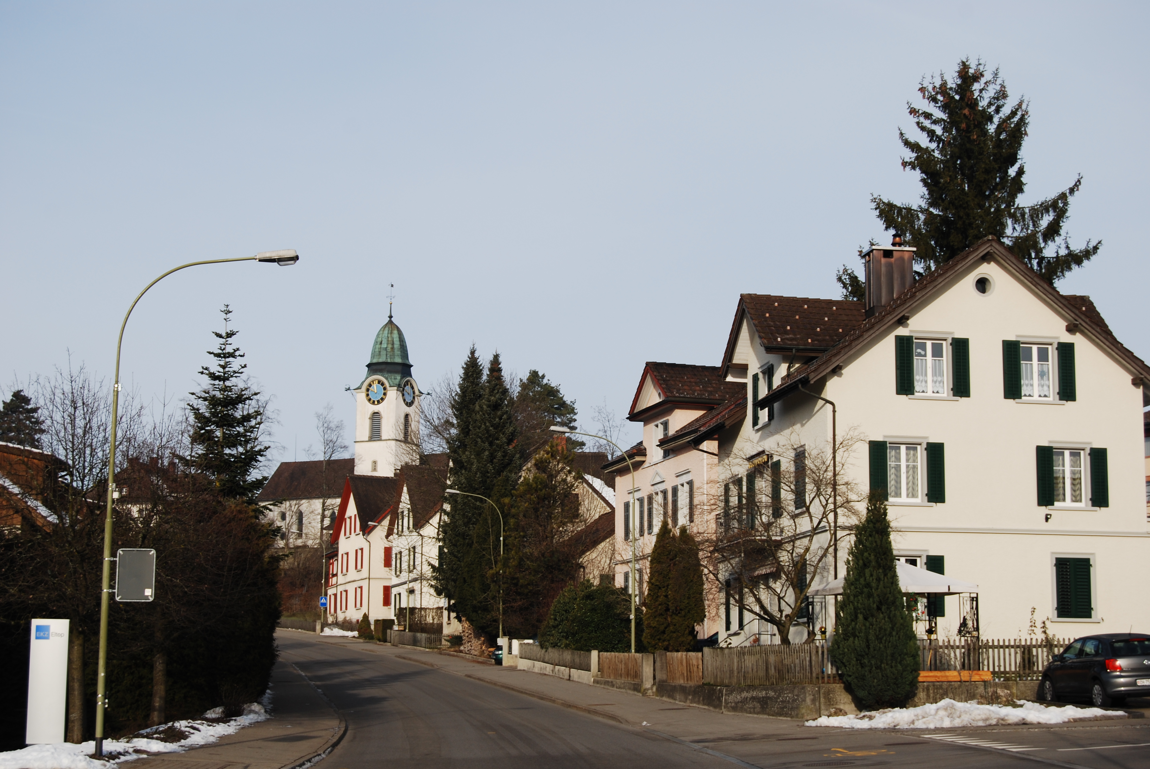 Main street and church of Russikon, canton of Zürich, SwitzerlandEsperanto: Ĉefstrato kaj preĝejo de Russikon, Kantono Zuriko, Svislando